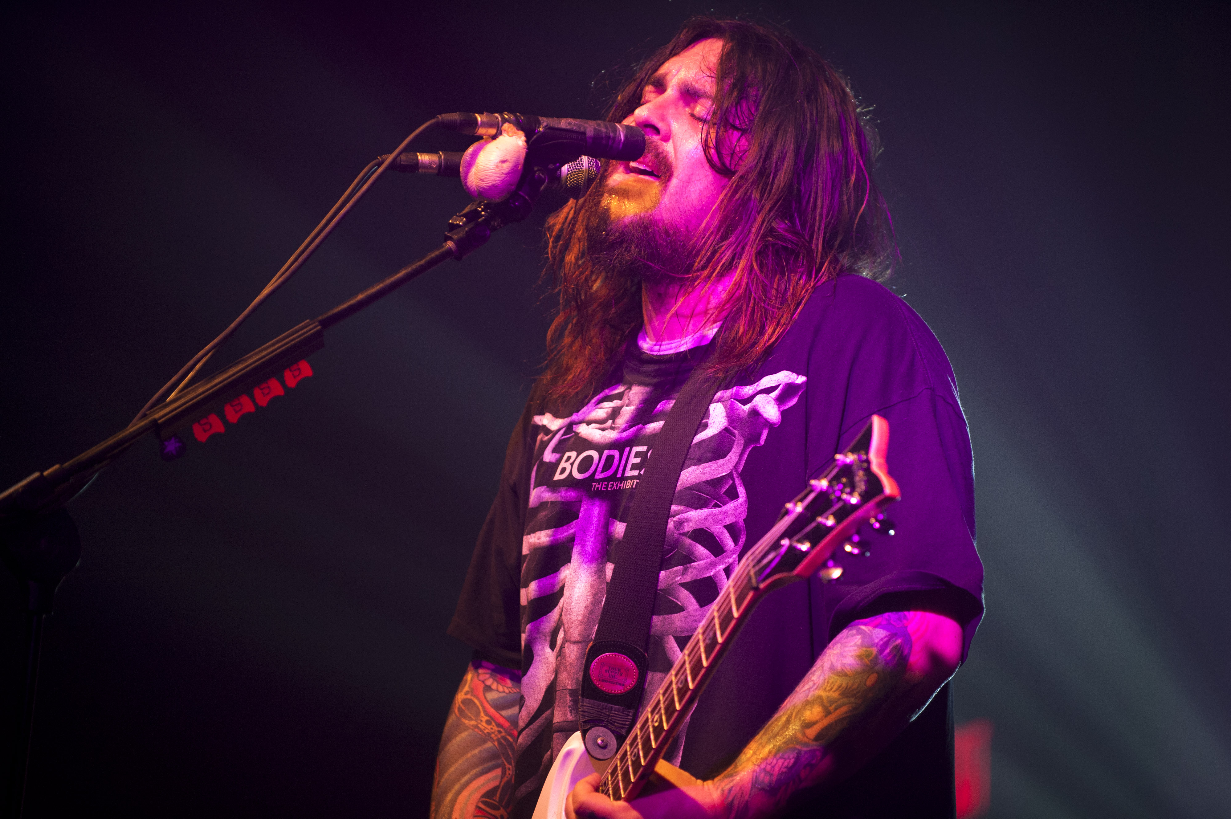 Shaun Morgan, lead singer for the band Seether, performs for Team Incirlik March 19, 2012, at the Club Complex at Incirlik Air Base, Turkey. The hard-rock band visited Incirlik as part of a USO tour through Italy and Turkey.